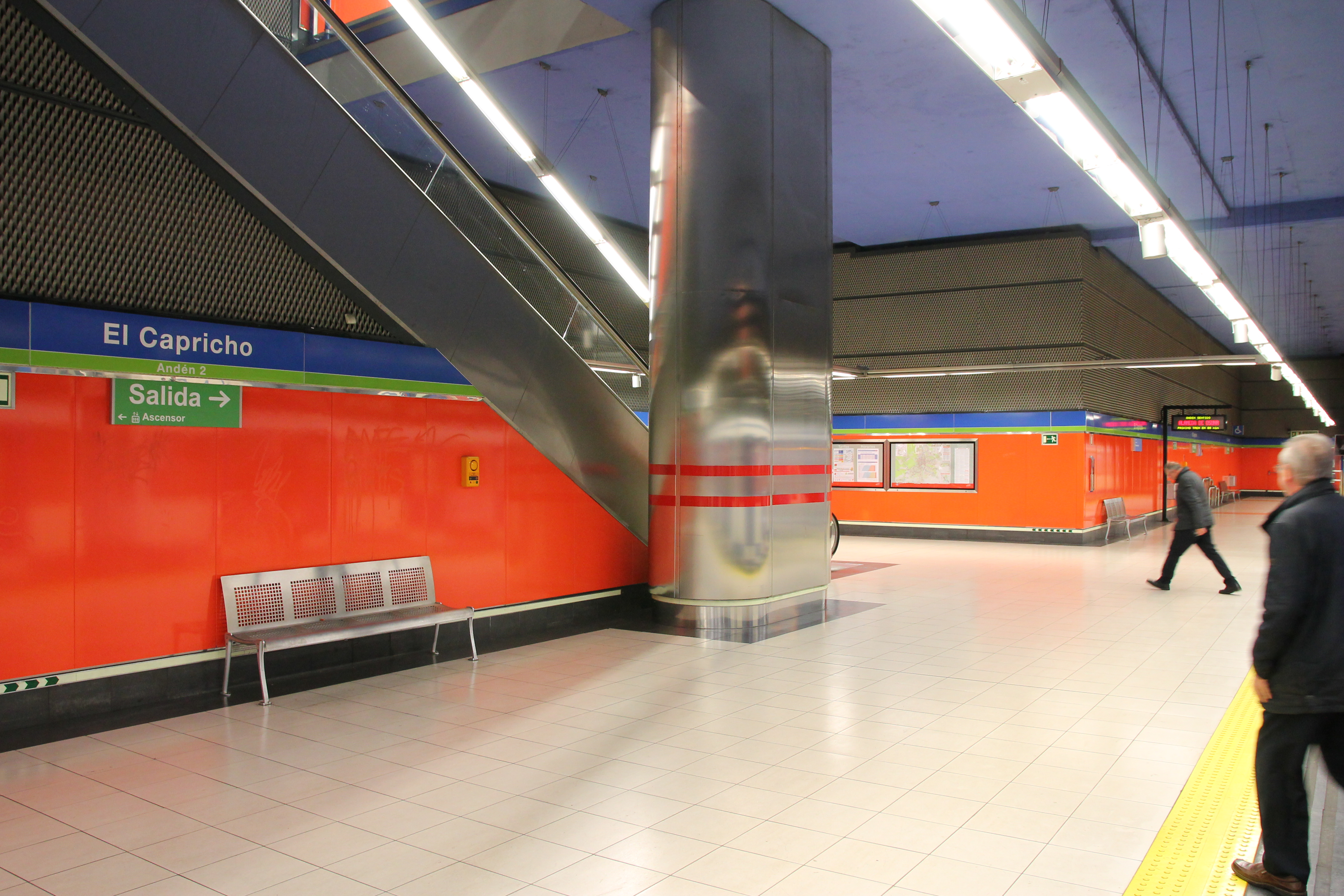 Estación de El Capricho